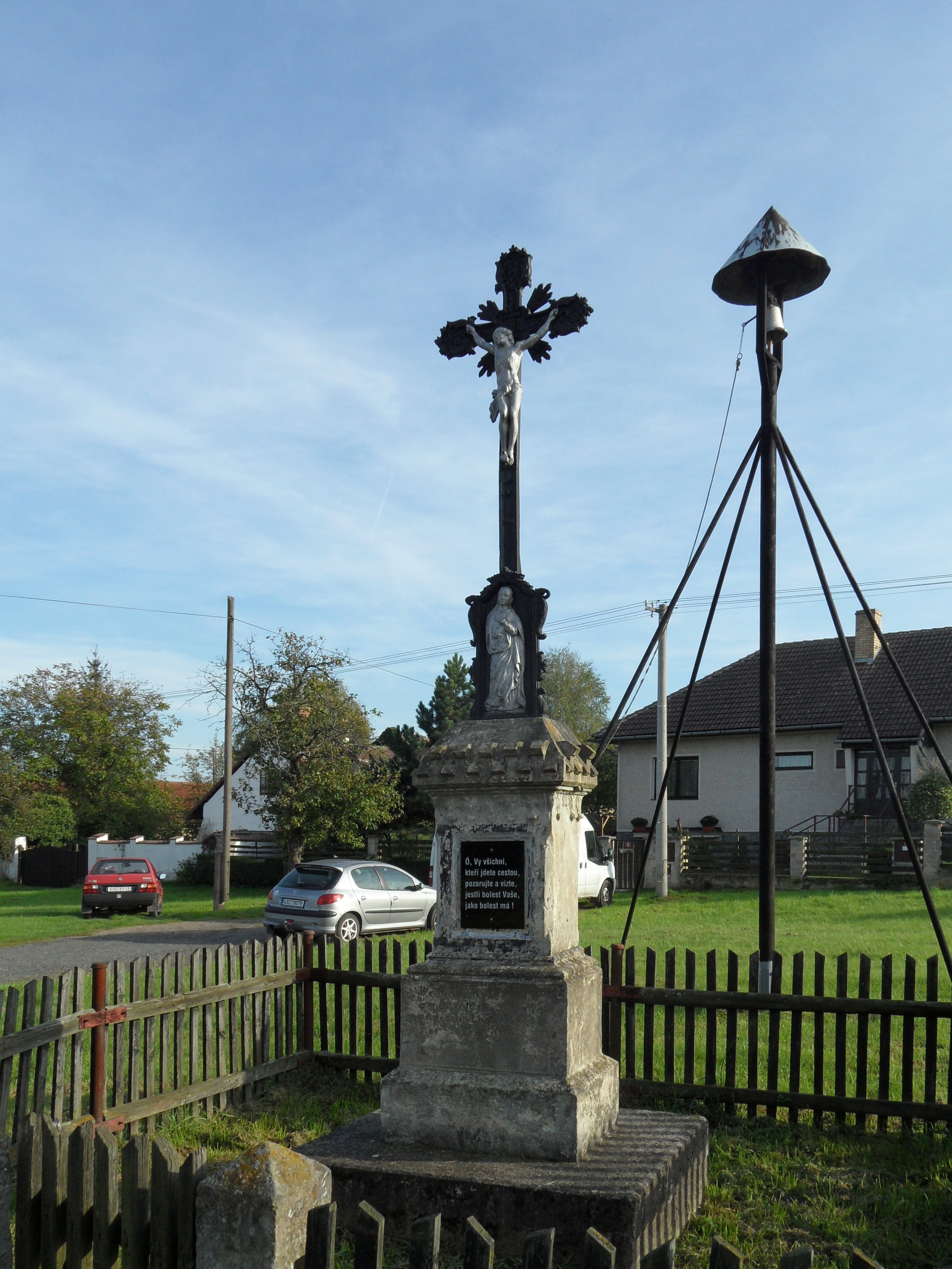 Uhlířská Lhota G. Crucifix and Bell Tower, Kolín District, the Czech Republic.